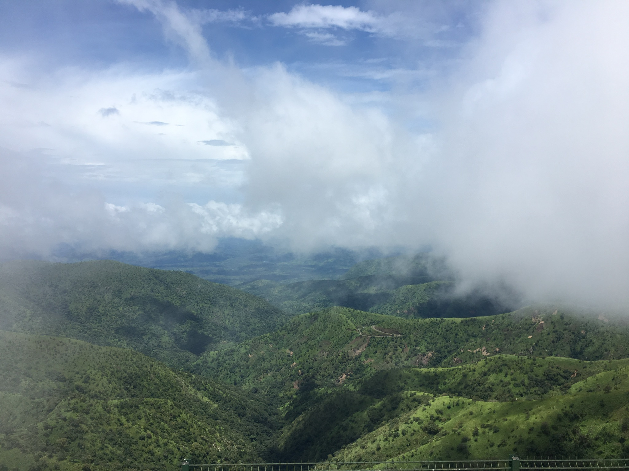 The heighest point on Obudu Mountain approximately 1,600km above sea level with winds reaching over 30mph